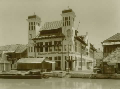 PT Tjipta Niaga building in Jakarta.